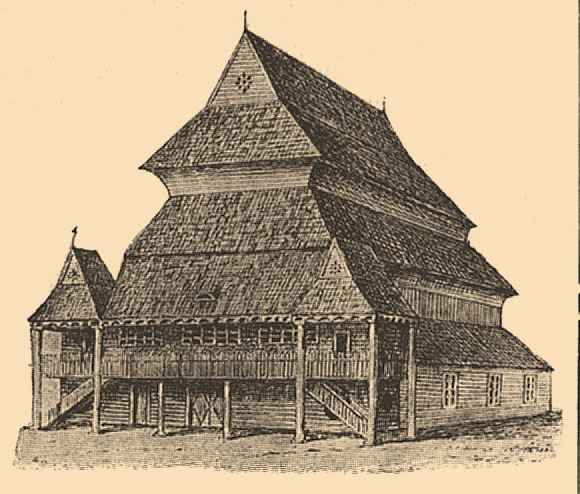 Illustration from Brockhaus and Efron Jewish Encyclopedia (1906—1913)